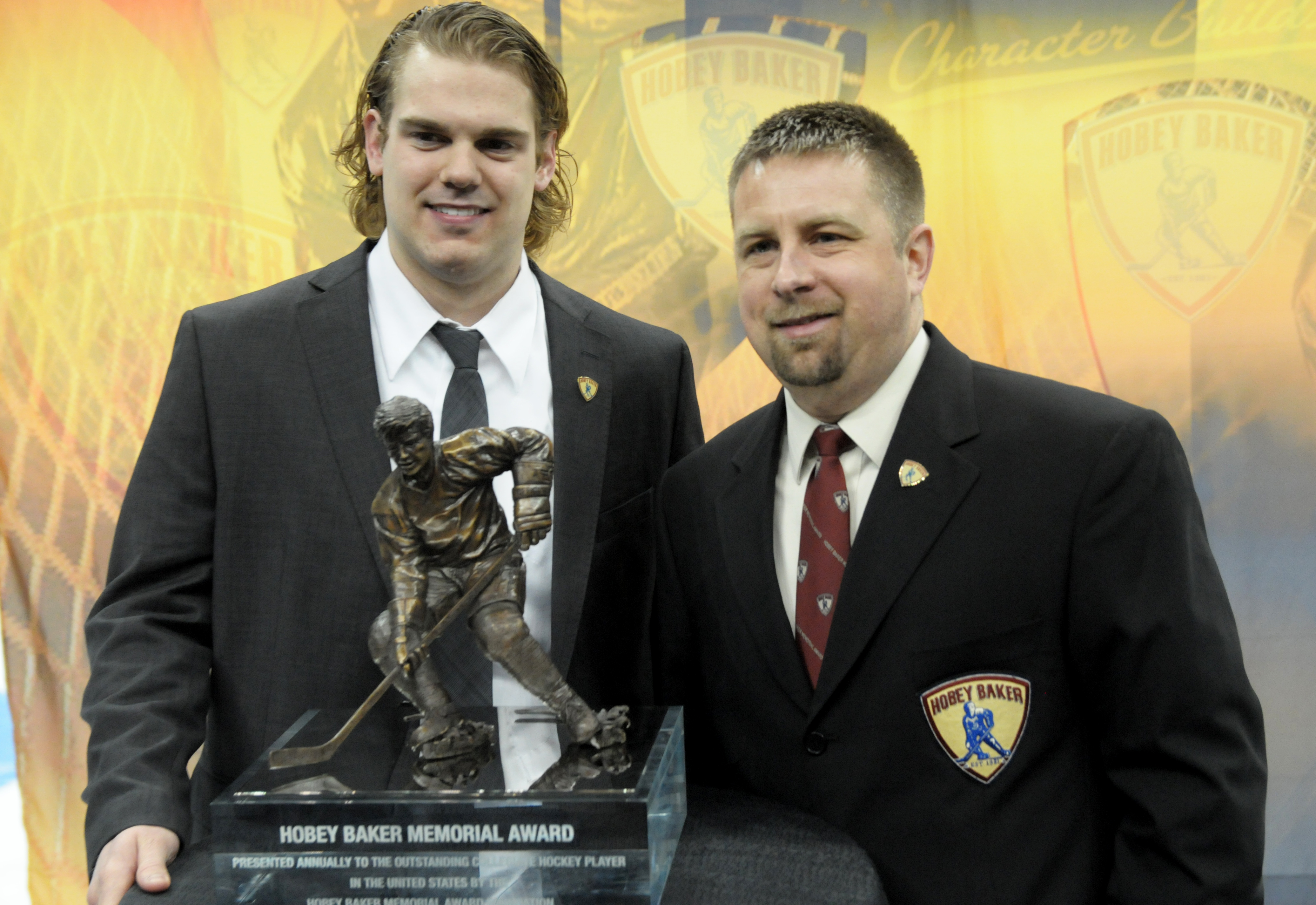 2013 Hobey Baker Award winner Drew LeBlanc (left) with Hobey Baker committee chairman Hans Skulstad. LeBlanc was a senior forward from St. Cloud State University.